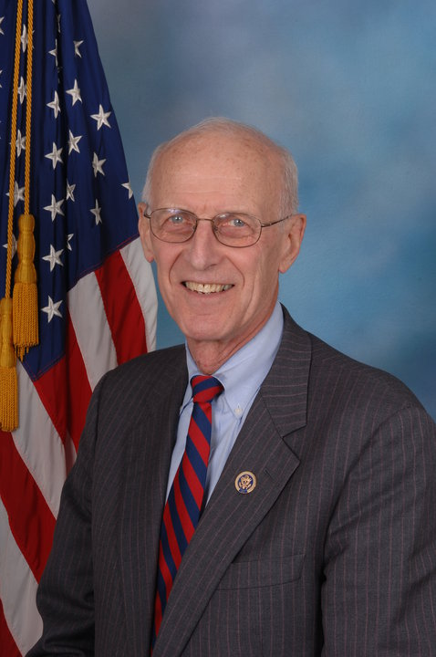 US Rep. John Olver